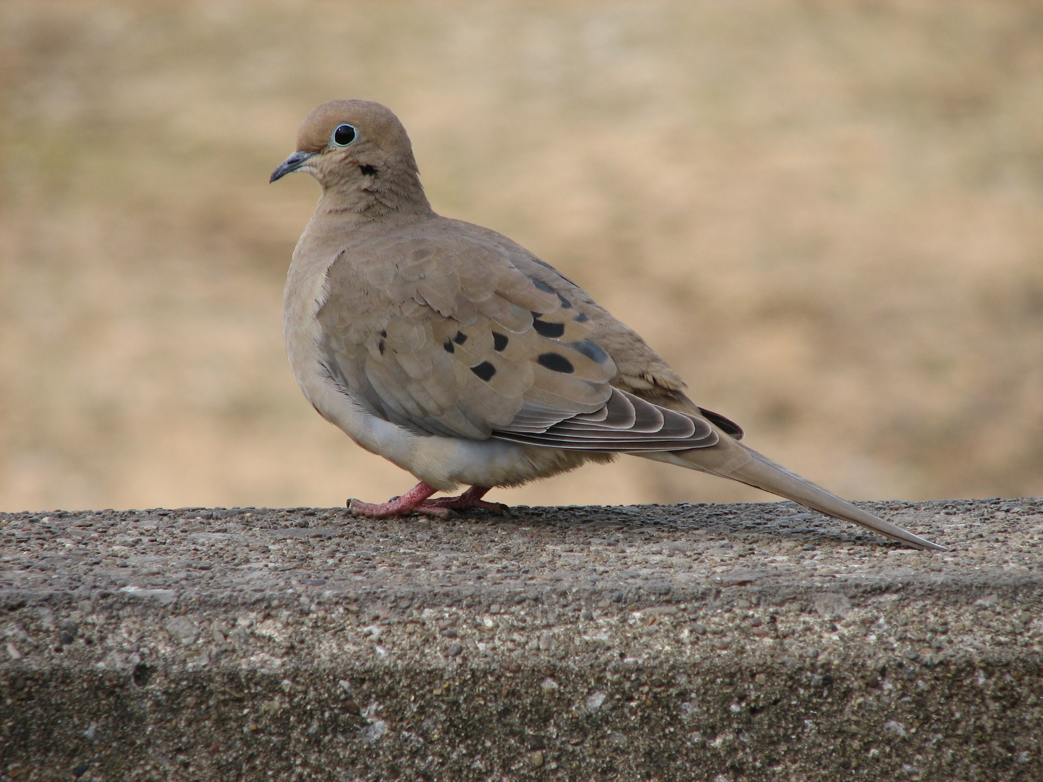 Mourning Dove